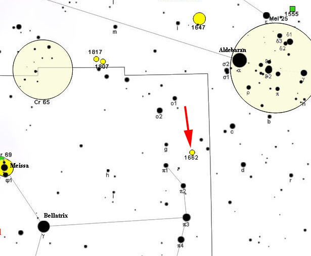 Map of NGC 1662